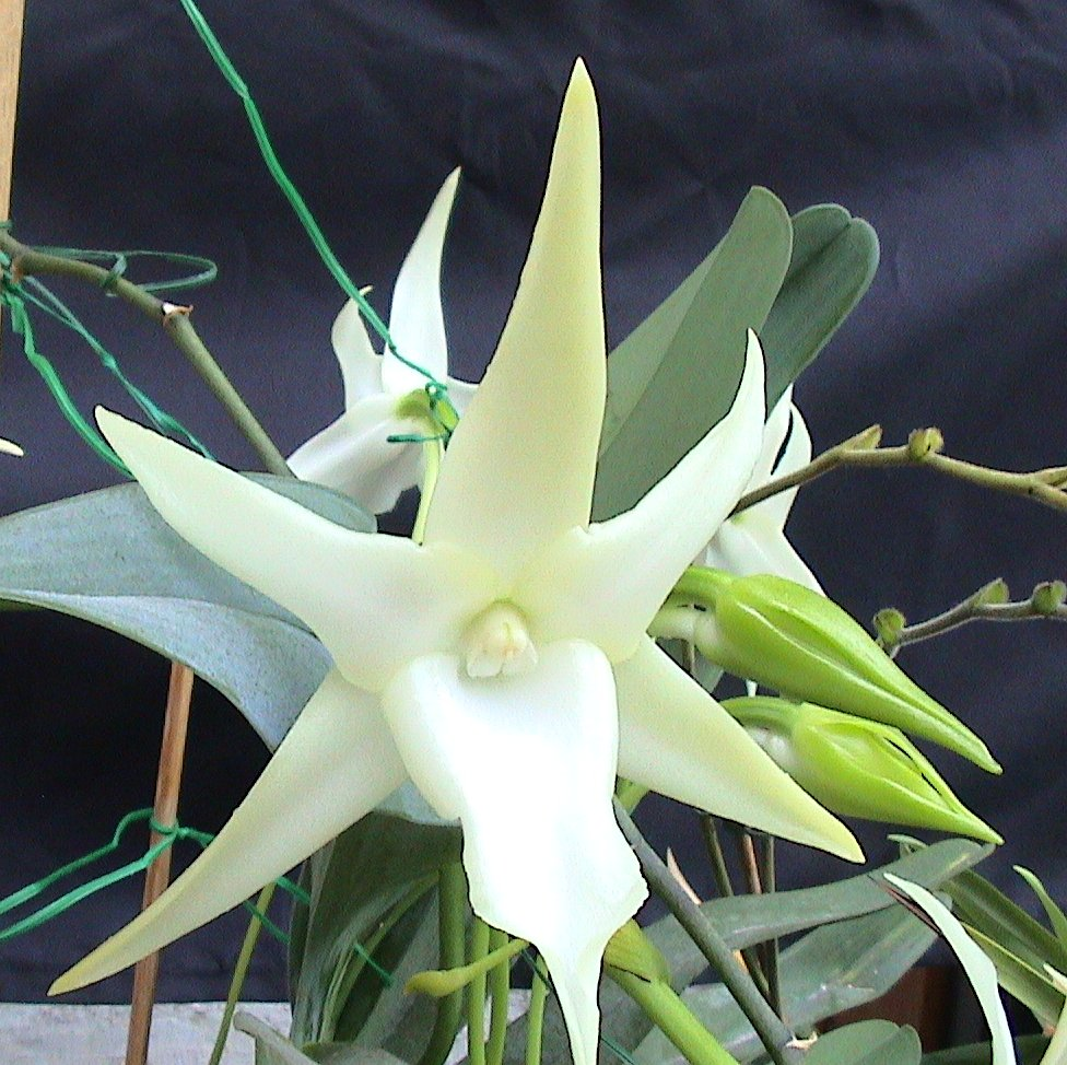 Angraecum sesquipedale Photo by Thérèse Viard Plant cultivated in France, december 2006